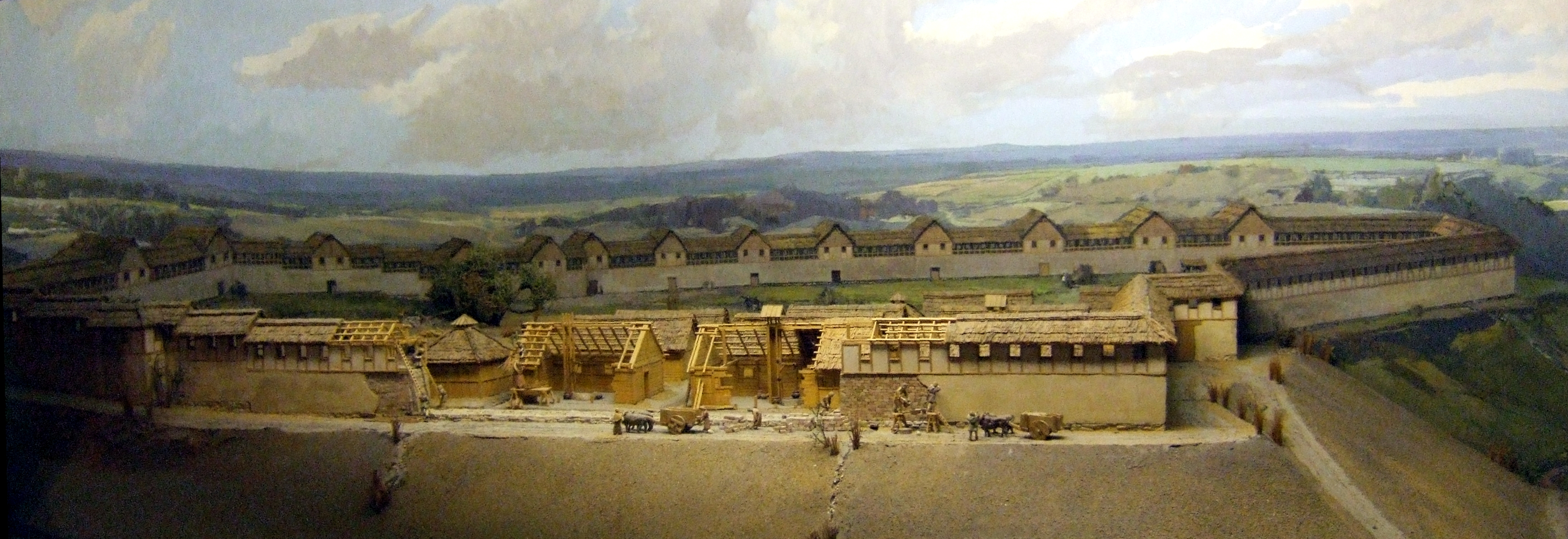 Erection of the Heuneburg (early 6th c. B.C) (diorama at the Heuneburg Museum, Hundersingen)